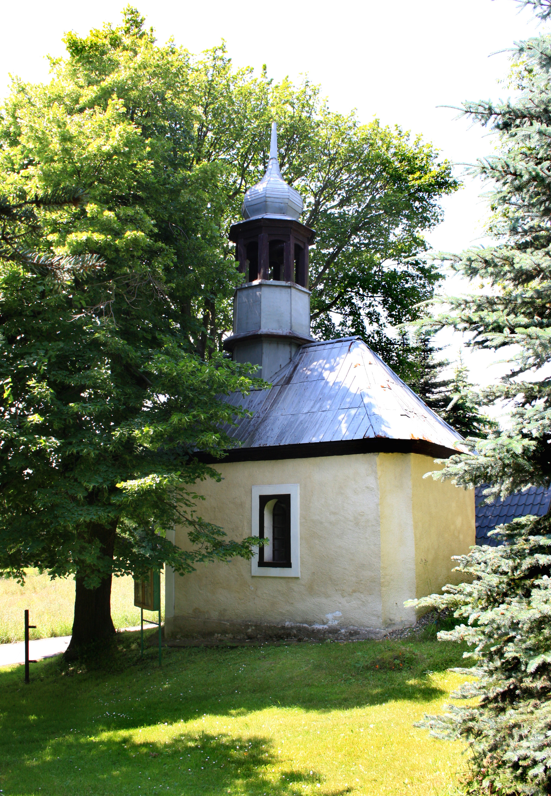 Small chapel at Zákoutí village, part of Blatno, Czech Republic